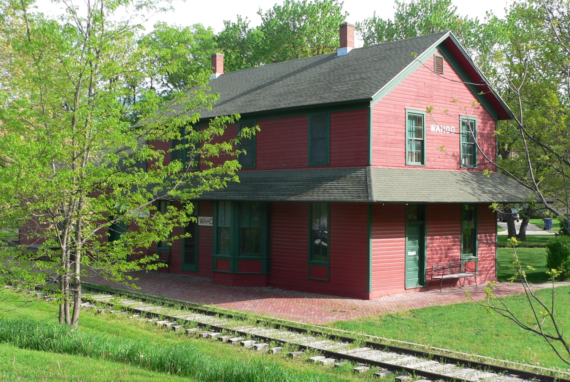 Wahoo Burlington Depot in Wahoo, Nebraska; seen from the south. (The long axis of the building is aligned northwest-southeast.) The building was constructed in 1886, and is listed in the National Register of Historic Places. It is now part of the Saunders County Museum.